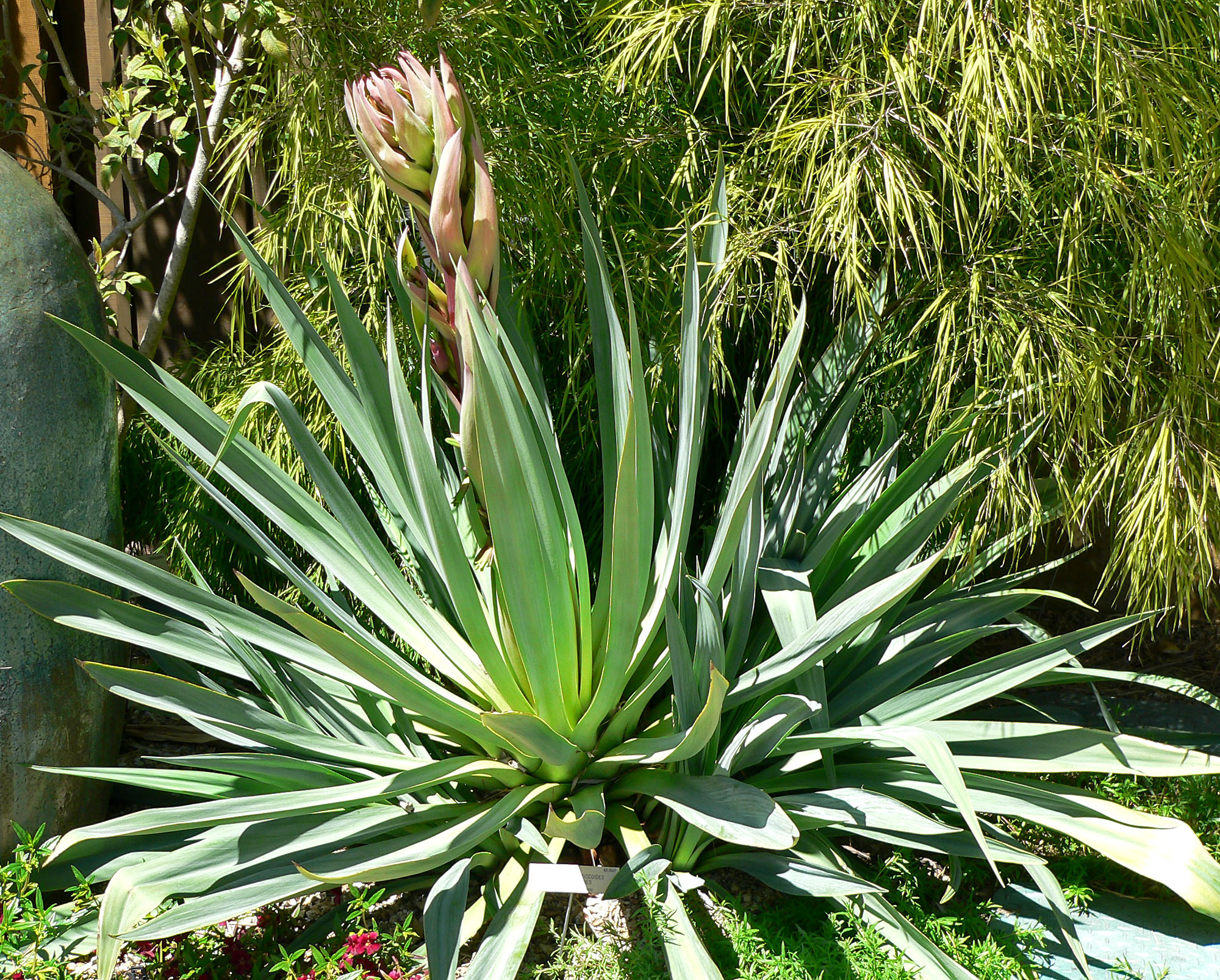 Beschorneria yuccoides ssp. yuccoides at the University of California Botanical Garden, Berkeley, California